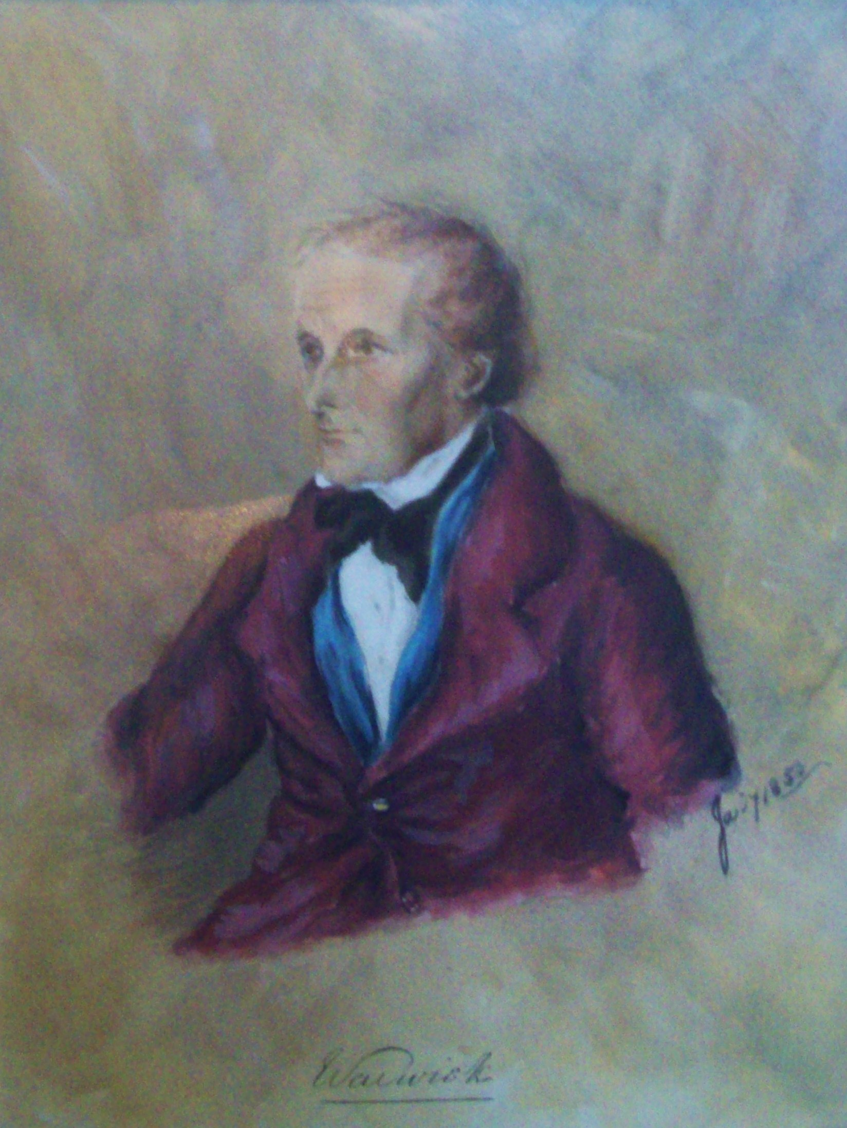 Portrait of Henry Richard Greville, 3rd Earl of Warwick, 3rd Earl Brooke (1779 – 1853), by Anne Greville (Lady Anne Brooke); dated January 1852; displayed in Warwick Castle.